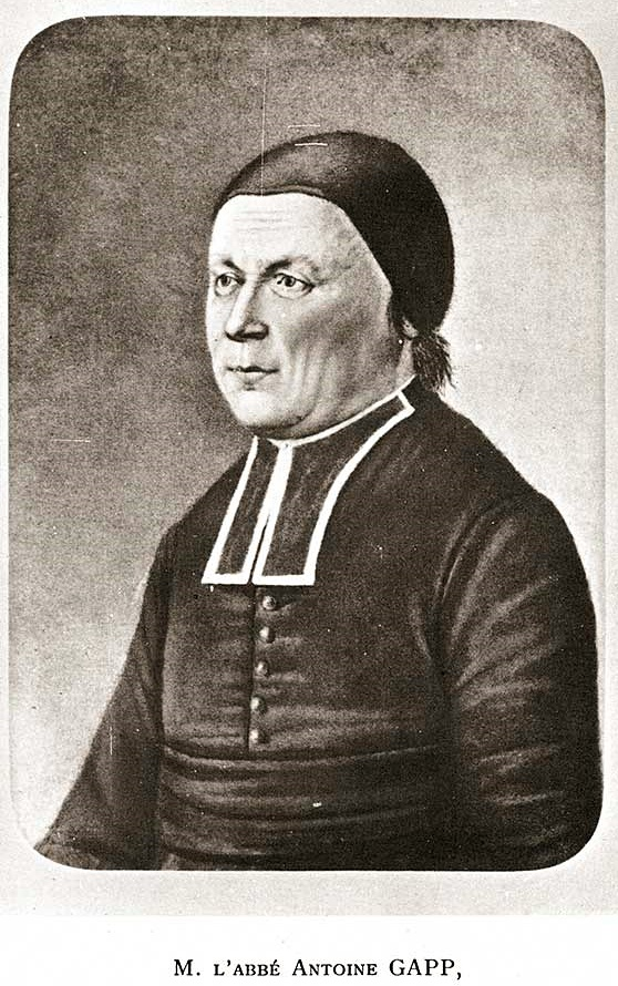 Anton Gapp, auch Antoine Gapp, (1766-1833), französischer Priester und Ordensgründer